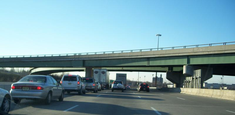 Southbound on NJ 17 in Paramus-flyovers connecting to NJ 4